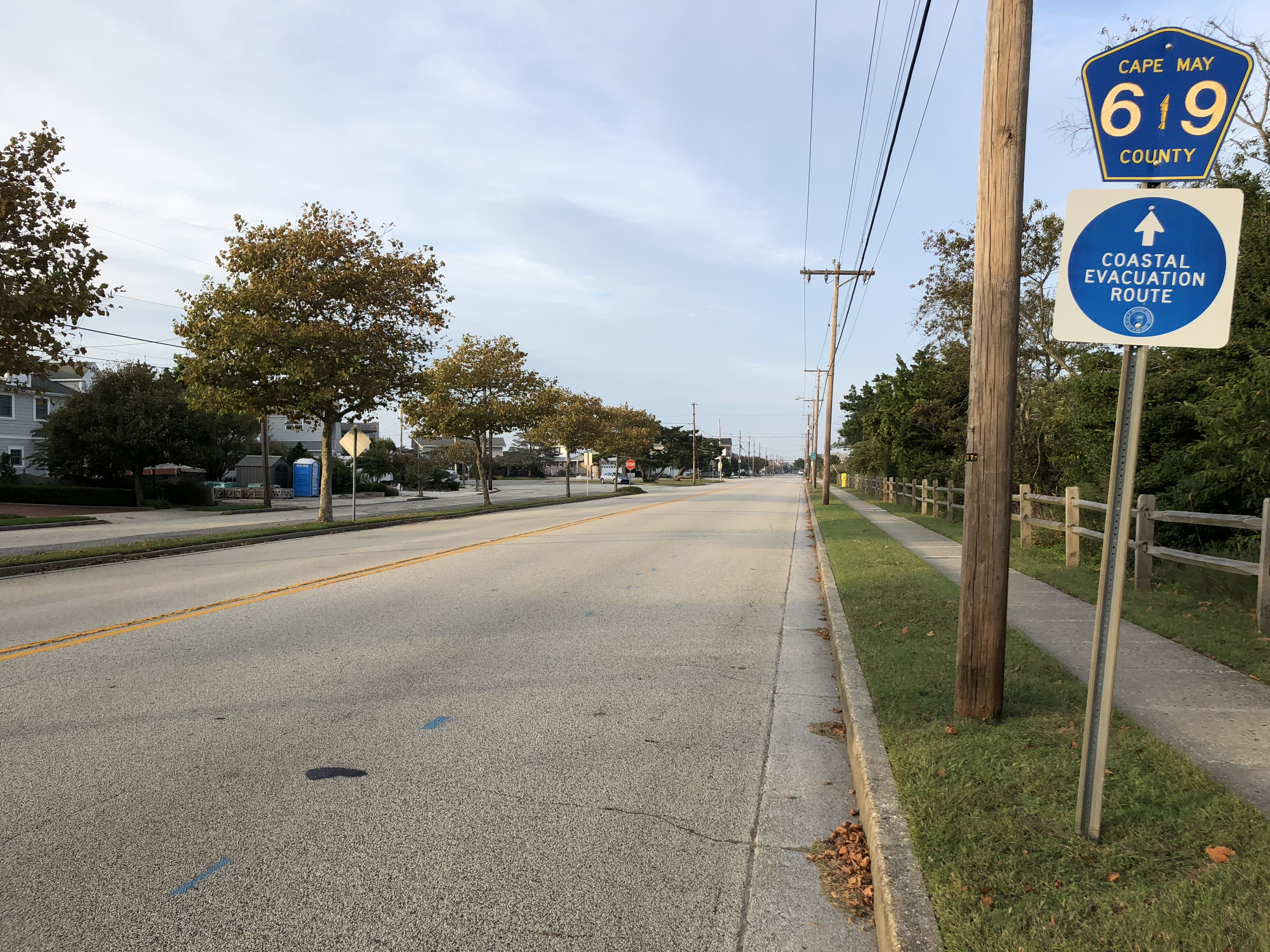 View north along Cape May County Route 619 (Third Avenue) just north of 117th Street in Stone Harbor, Cape May County, New Jersey